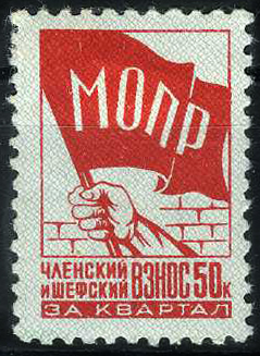 Stamp of MOPR